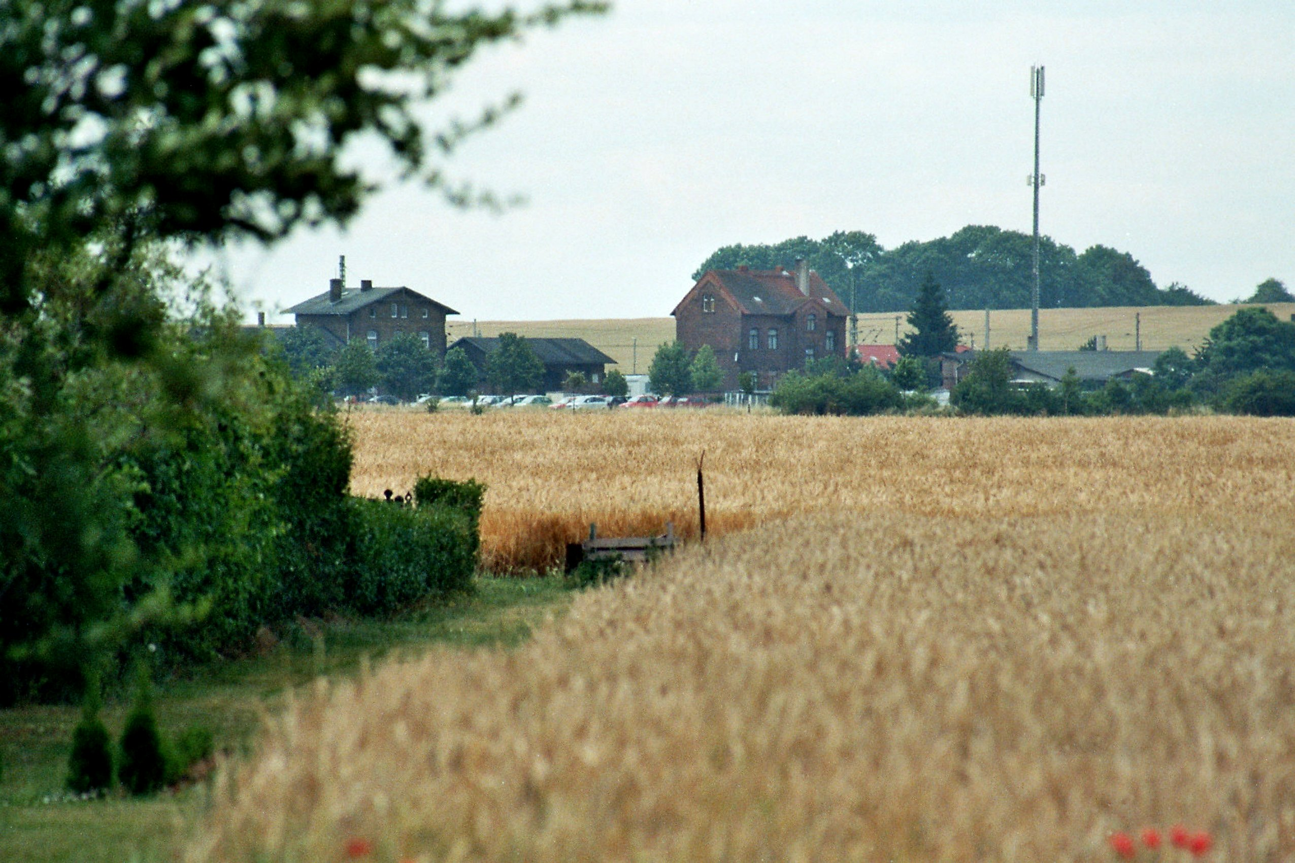 Sachsendorf (Barby), view to the railway station